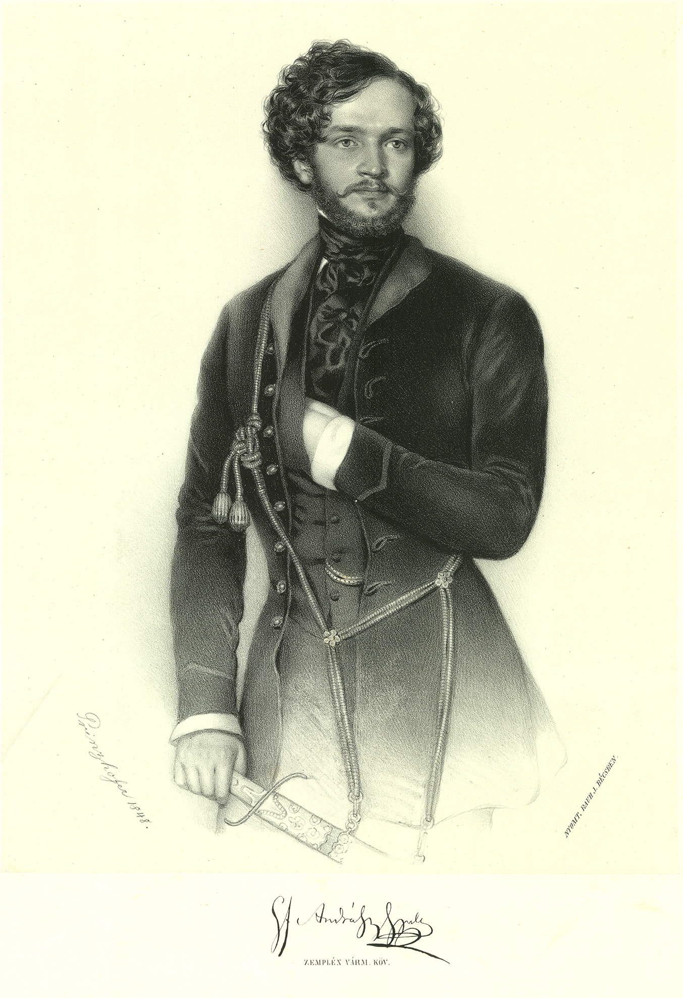 Idősebb csíkszentkirályi és krasznahorkai gróf Andrássy Gyula (Kassa, 1823. március 3. – Volosca, Fiume mellett,1890. február 18.) magyar államférfi, 1867–71 között a Magyar Királyság miniszterelnöke, 1871–79 között az Osztrák–Magyar Monarchia külügyminisztere